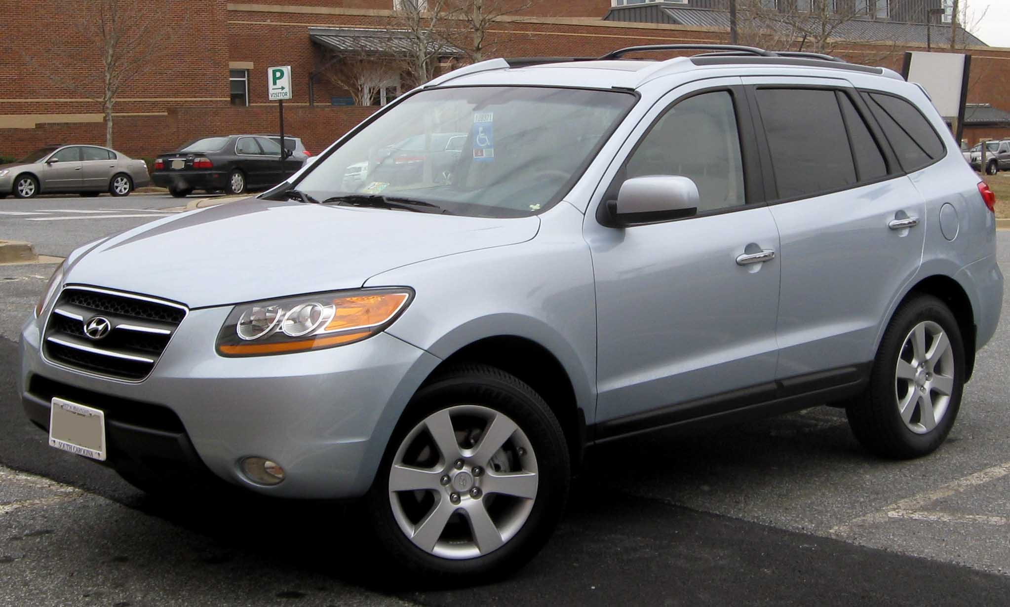 2007-2009 Hyundai Santa Fe photographed in College Park, Maryland, USA.